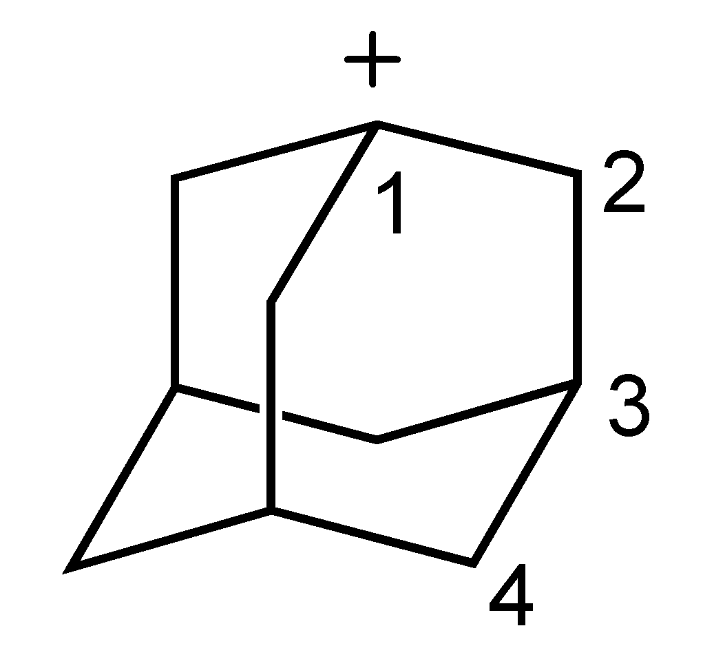 Adamantyl carbocation